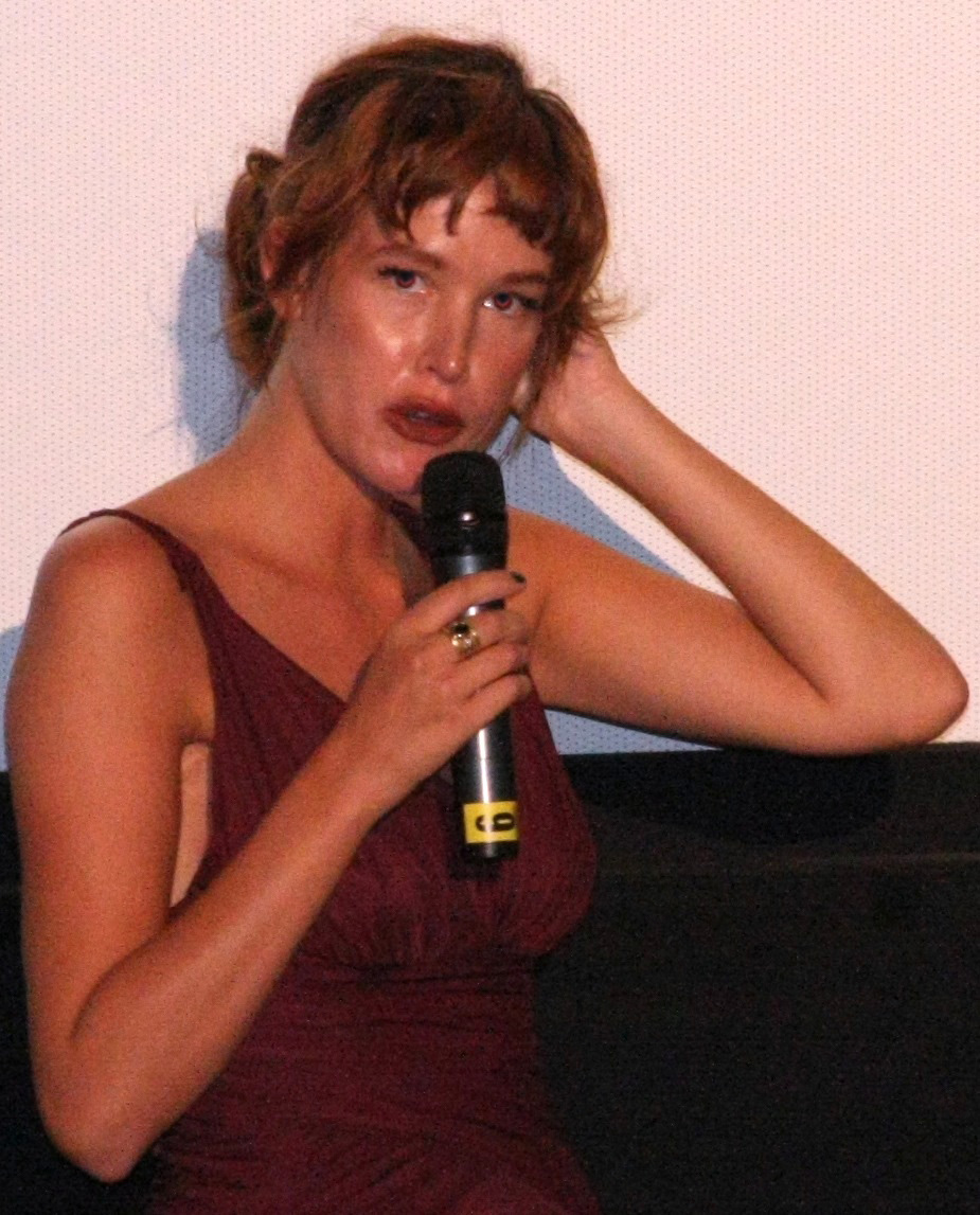 Paz de la Huerta, leading lady in Gaspar Noé's film, Enter the Void.